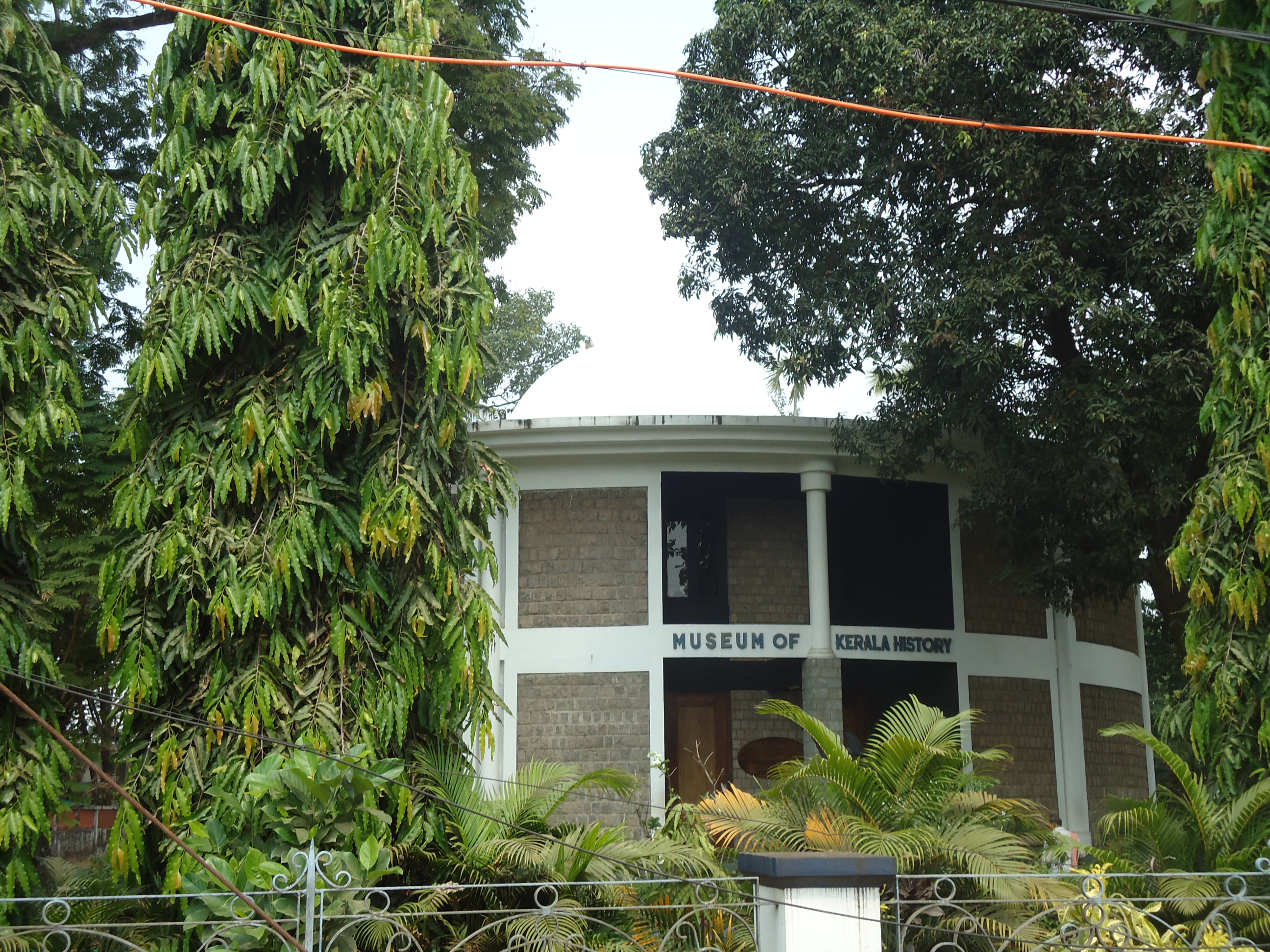 Museum of Kerala History Edappilly